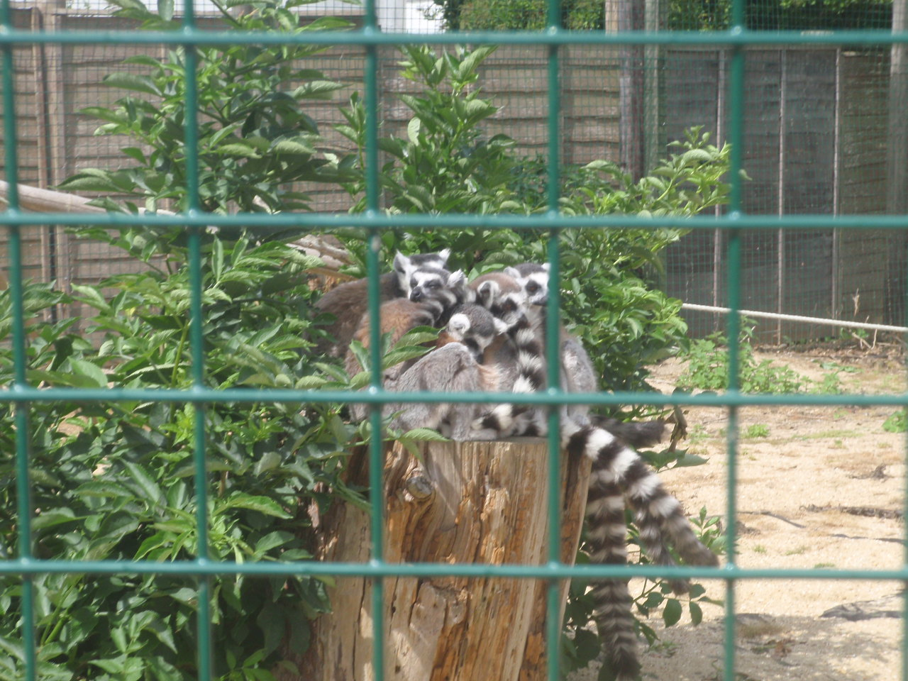 Isle of Wight Zoo - lemurer